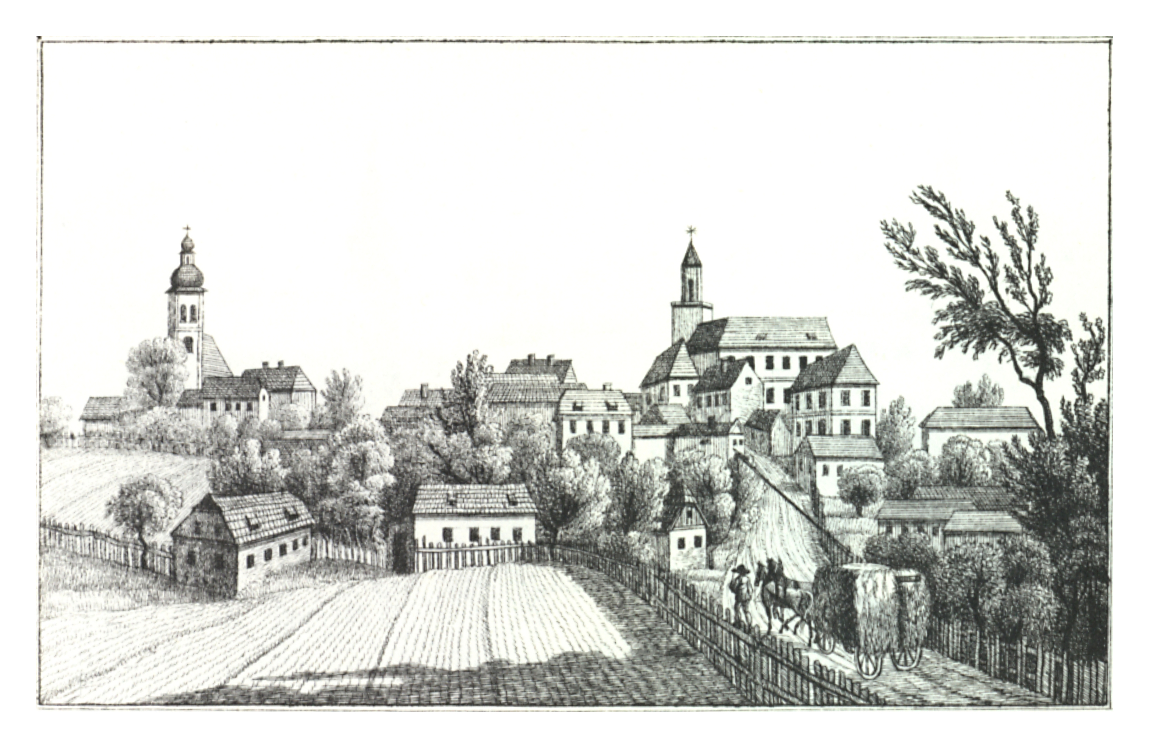 J. F. Kaiser - lithographirte Ansichten der Steyermärkischen Städte, Märkte und Schlösser Graz, 1825 Scanprojekt Community Projektbudget 2012 This scan or this PDF-file was created within the GLAM-project Bookscanning, supported by Wikimedia Germany and Wikimedia Austria as a part of the community-project to capture books, documents and pictures which are not eligible to copyright or for which the copyright has expired. This document describes or depicts an object which is located in Austria today. Send requests for uncompressed scans to Hubertl. This work is in the public domain in its country of origin and other countries and areas where the copyright term is the author's life plus 100 years or less. You must also include a United States public domain tag to indicate why this work is in the public domain in the United States. This file has been identified as being free of known restrictions under copyright law, including all related and neighboring rights.